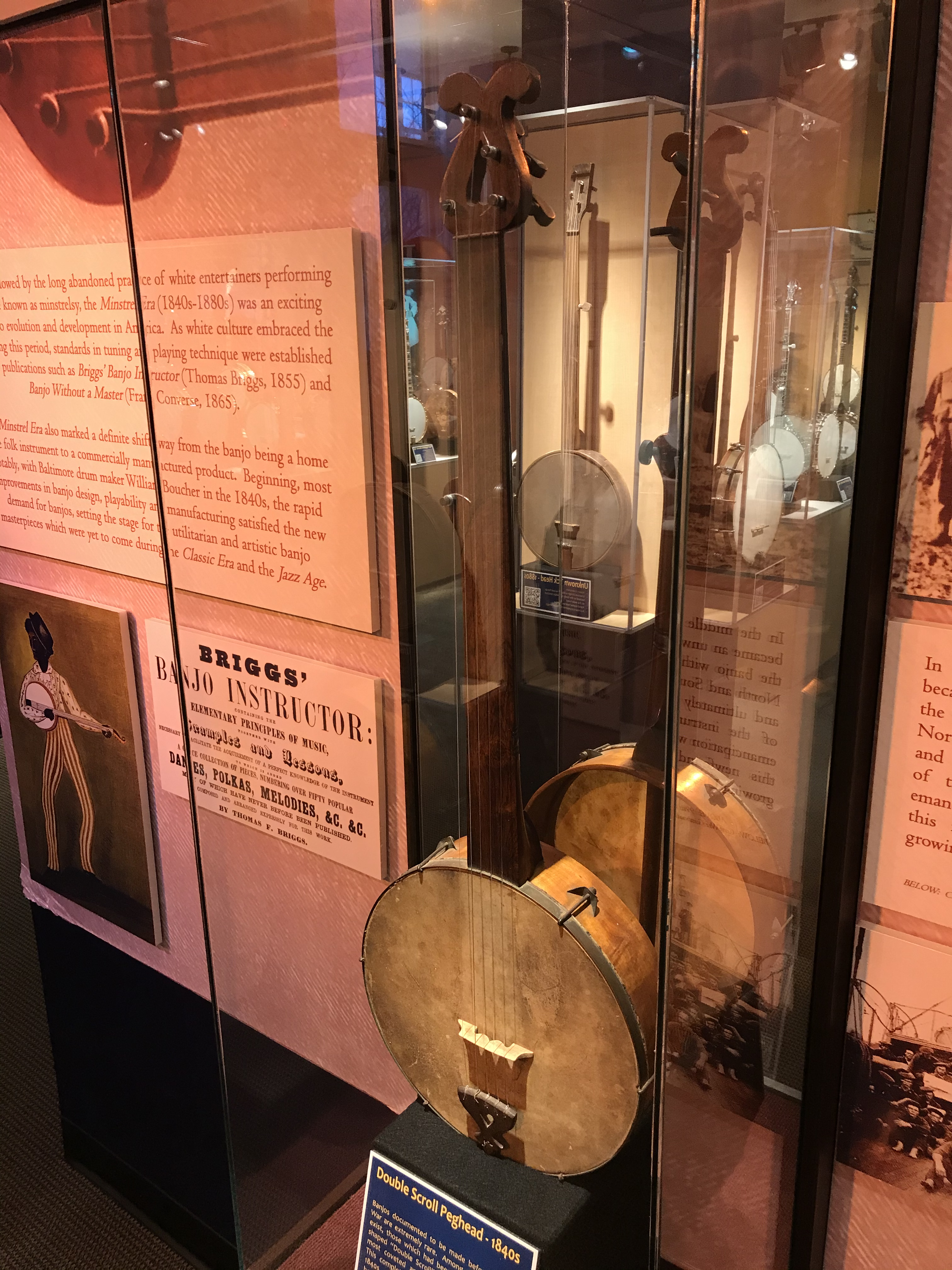 American banjo from the 1840s at the American Banjo Museum. The peghead is in the form of a lyre or double scroll. The museum didn’t know of another example on public display anywhere in February 2020, when the photo was taken.